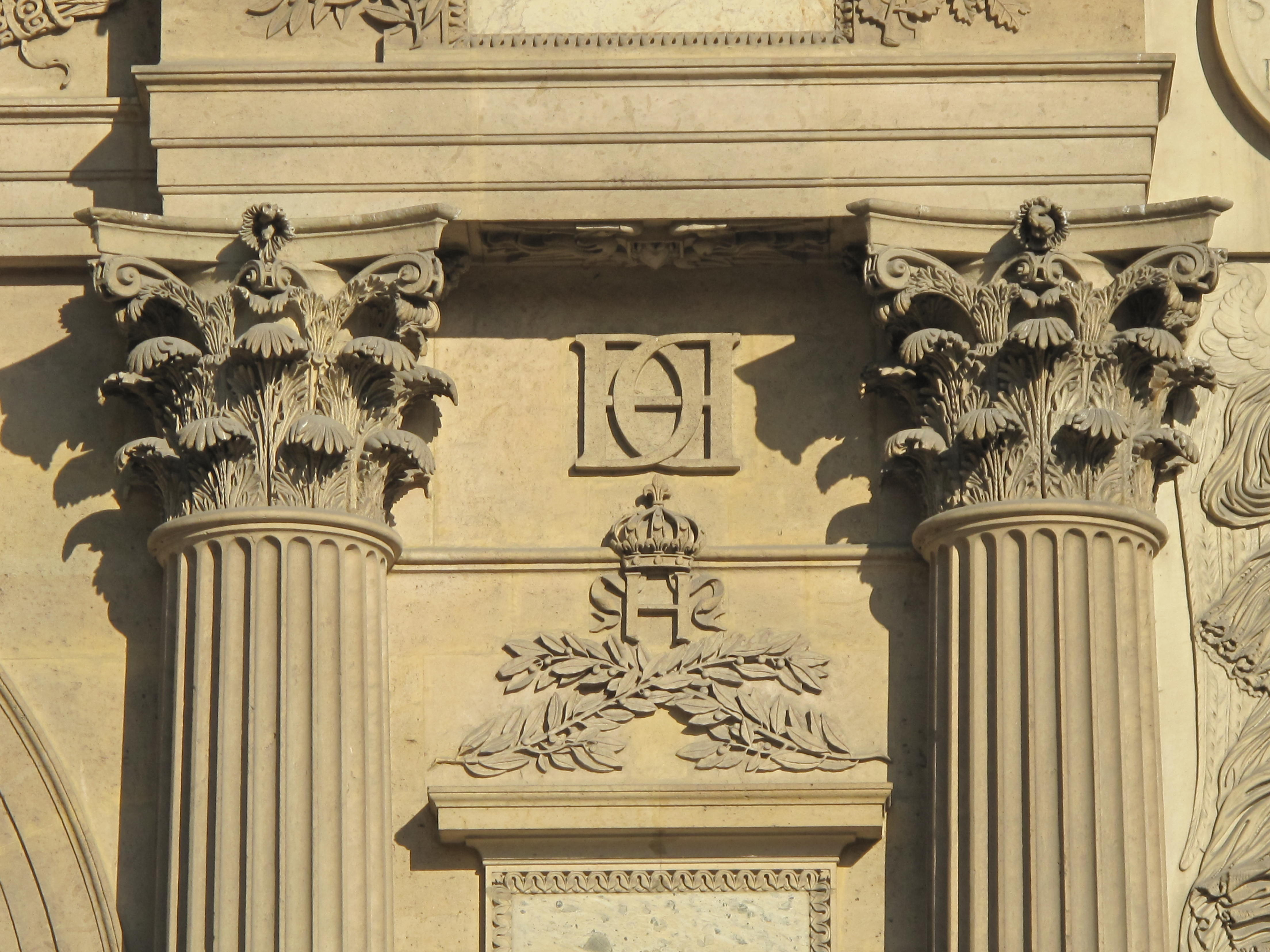 Monogram HC (or HD ?) of the king of France Henri II. The "C" was for his wife, Caterina de' Medici. But it could also be read as a "D" for his mistress, Diane de Poitiers.